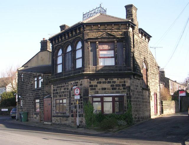 House - Apperley Lane, near London Street